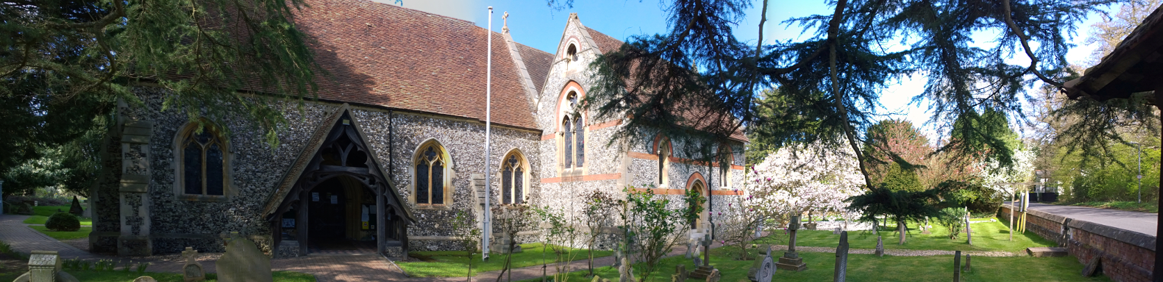 St Peters Church, Cranbourne, Berkshire, UK